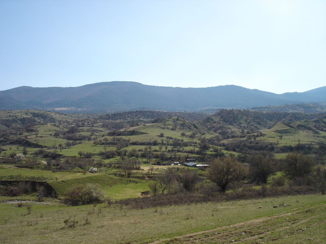 Kozjak Mountain in Mariovo, Macedonia